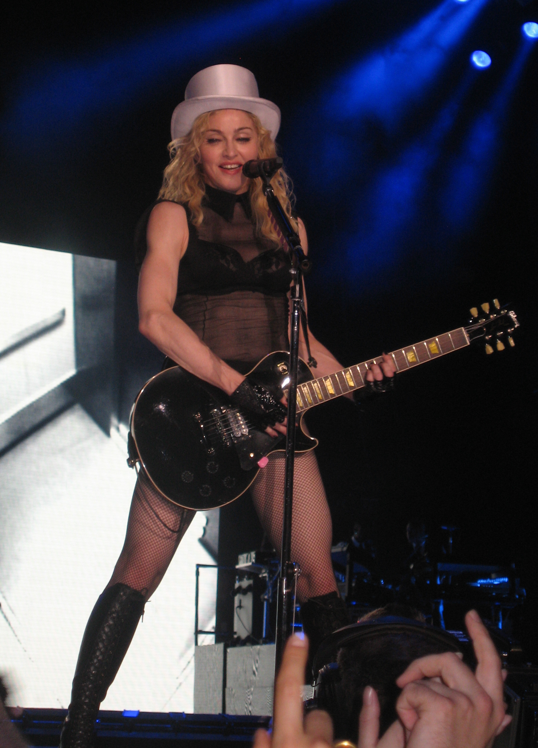 Picture taken at the concert